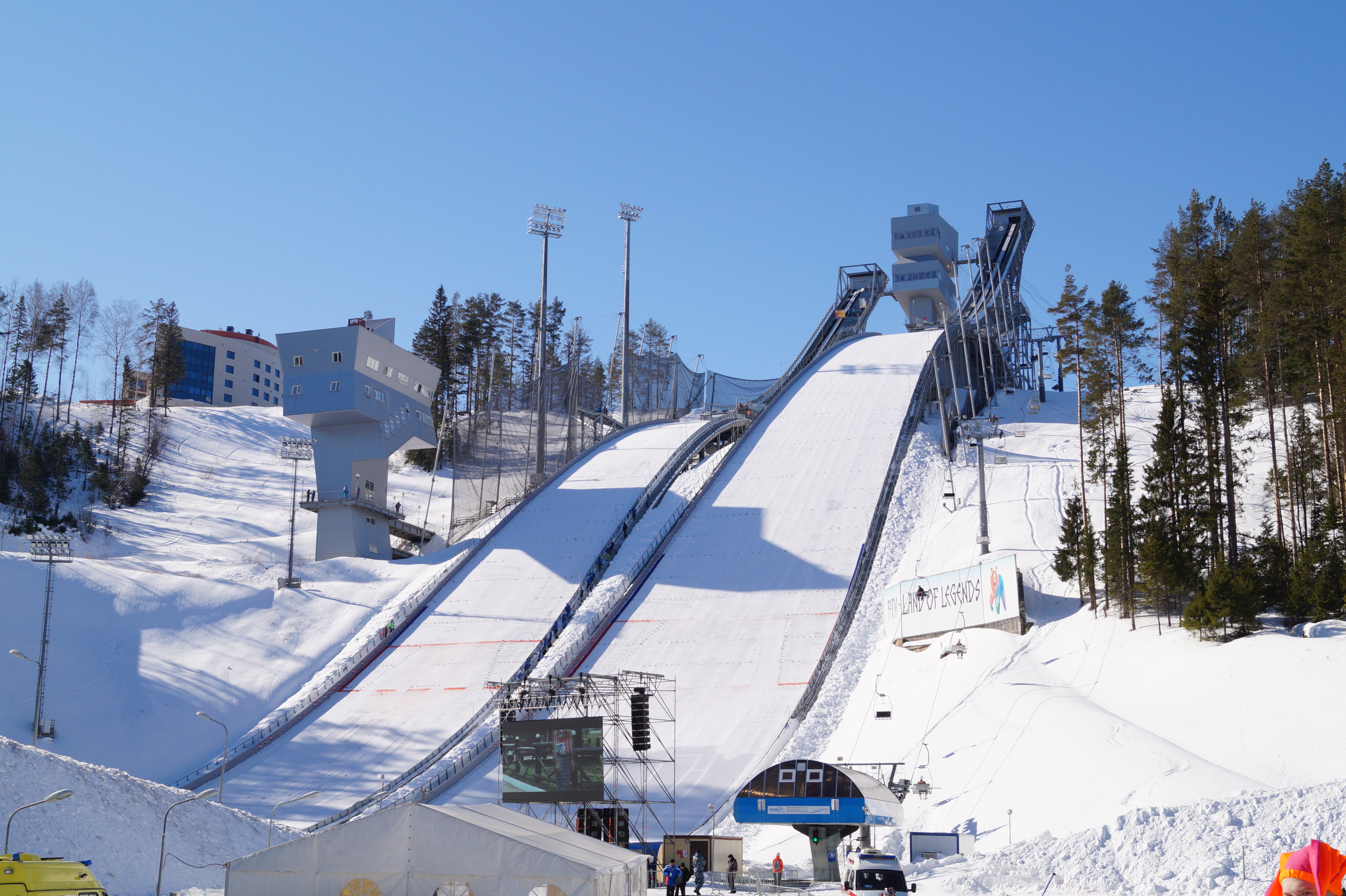 Snezhinka Ski Center 125K and 95K hills